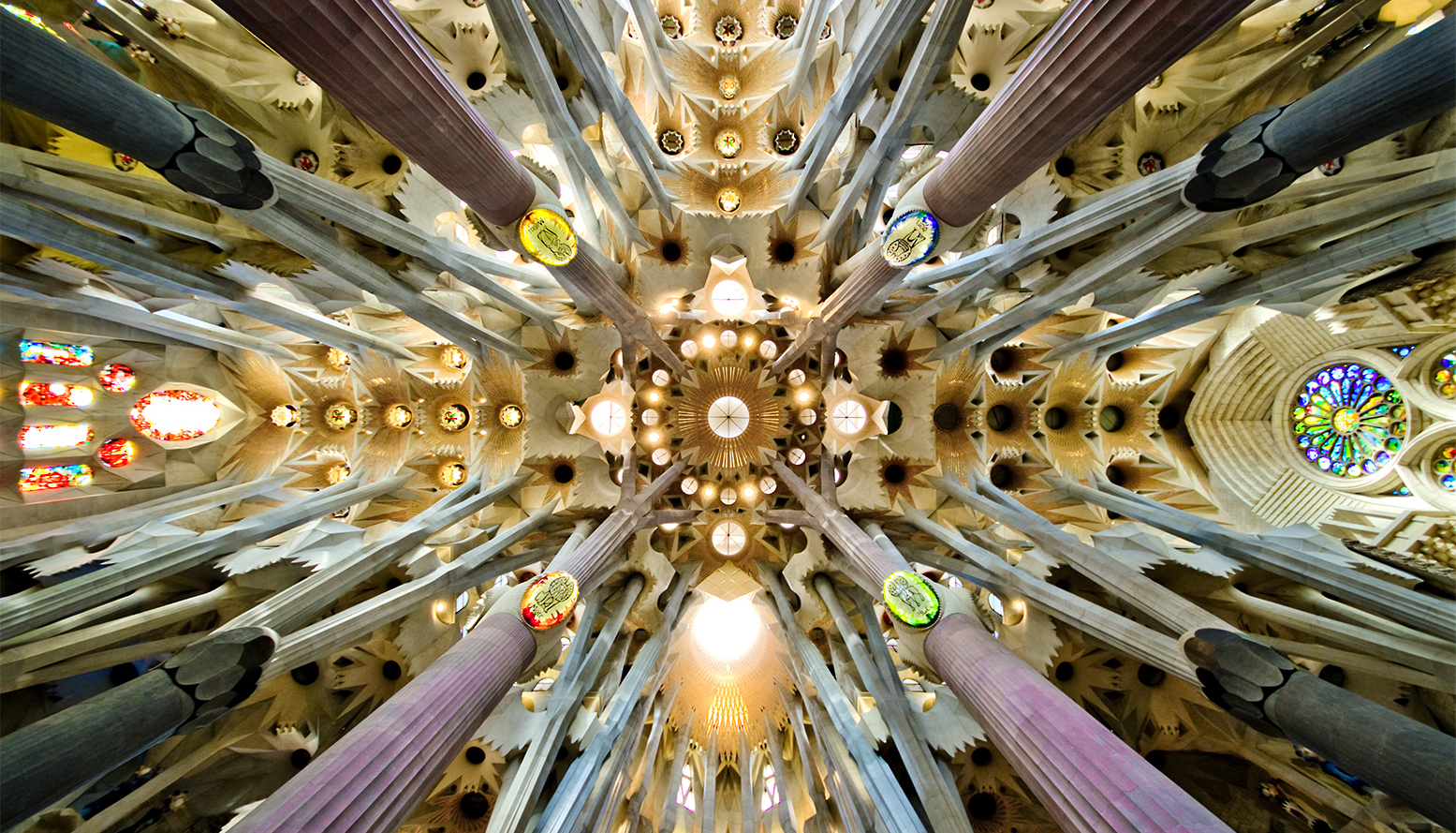 La Sagrada Família per fí té un interior acabat: és una meravella, el fruit del geni únic d'Antoni Gaudí. Falten les paraules per descriure-ho. ========================================================== This is the crossing and dome of the Sagrada Família basilica, Barcelona, Catalonia. The catalan basilica of La Sagrada Família (The Holy Family) is a major icon of Barcelona. After more than a century of construction, in 2011 the interior was finished and consecrated by the pope Benedict XVI. Work began in 1882 and is scheduled to be completed in 2026.